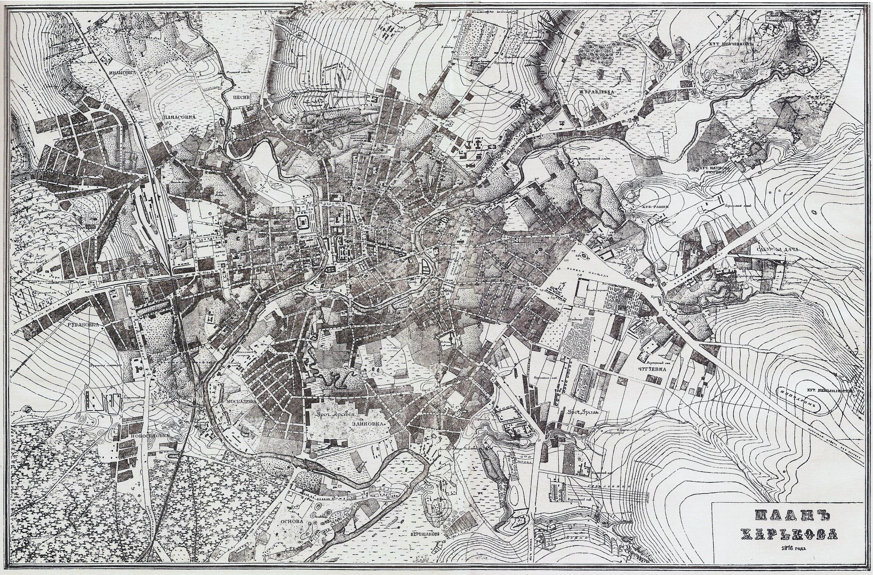 Map of the Kharkiv (Kharkov), 1876